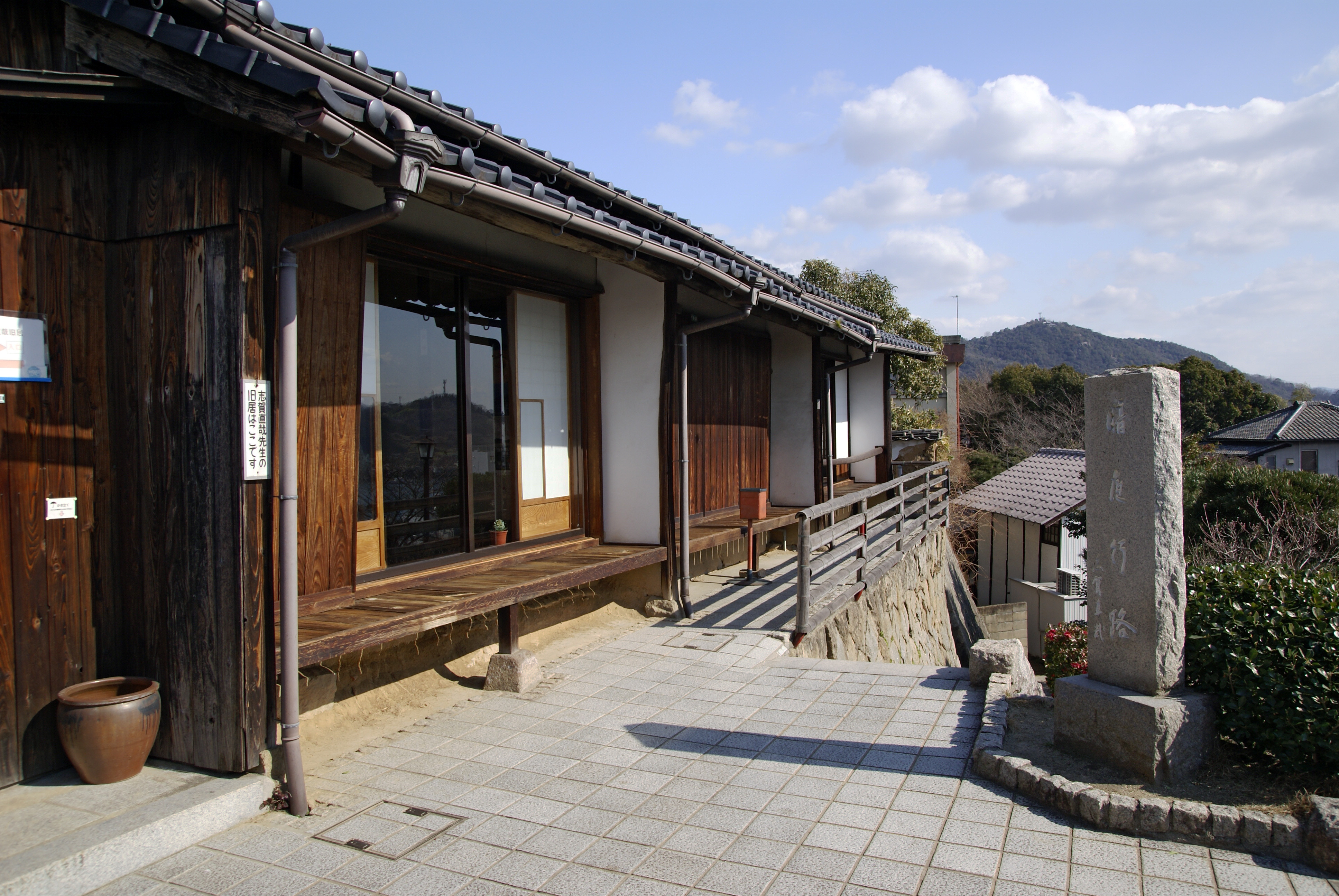 A Mansion of Literature Onomichi "Naoya Shiga House" in Onomichi, Hiroshima prefecture, Japan